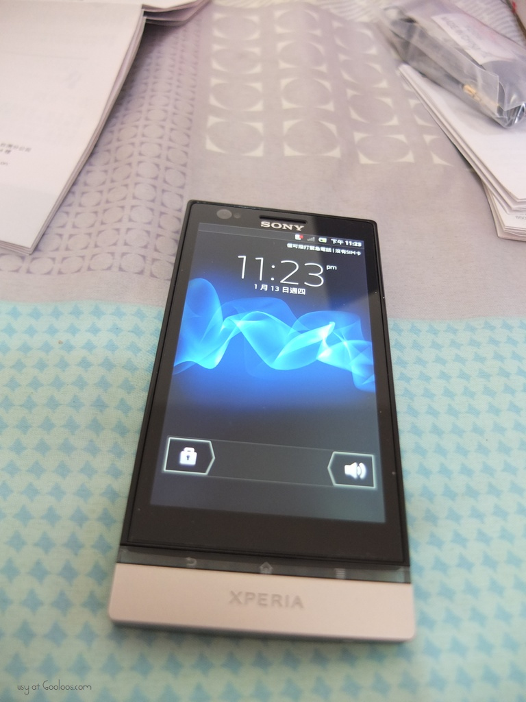 Look at Xperia P